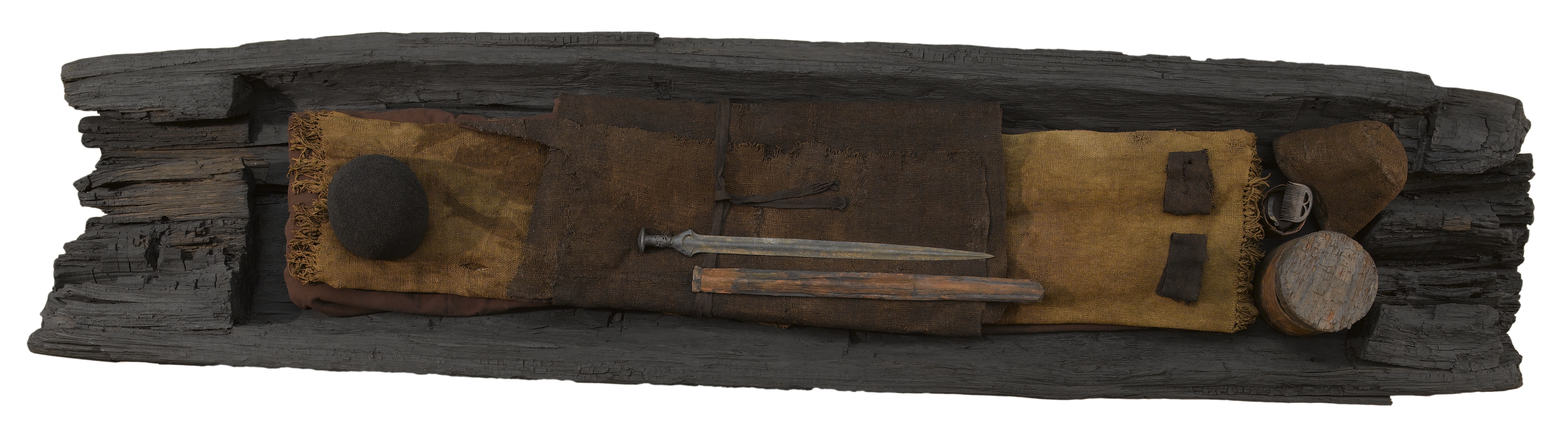 Oak log kist of Trindhøj man, Nationalmuseet, Danmark